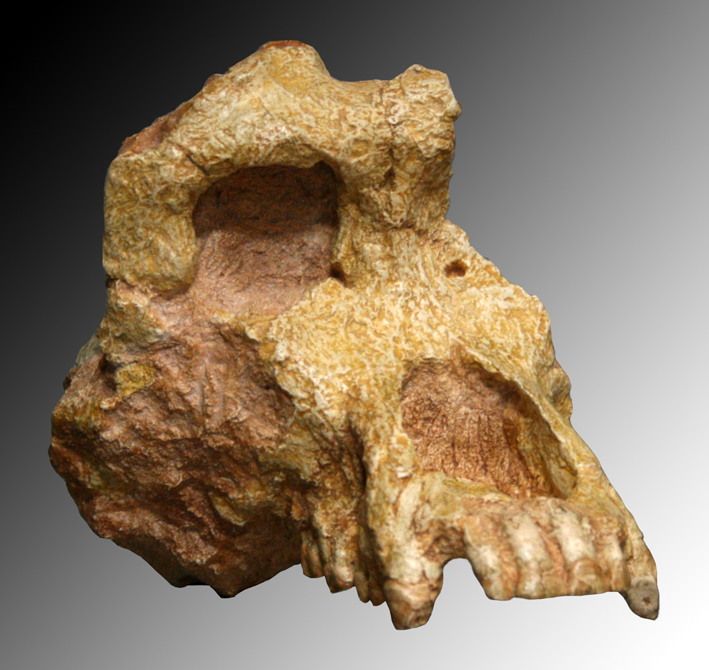 skull fragment of Ouranopithecus macedoniensis from Xirochori, Greece (Upper Miocene, 10,5 My) ; cast from Museum national d'histoire naturelle, Paris